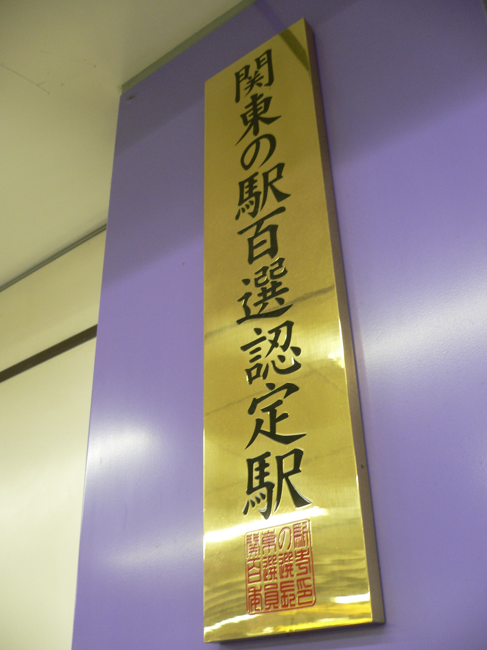 Korakuen Staion (後楽園駅), Bunkyo W, Tokyo M.